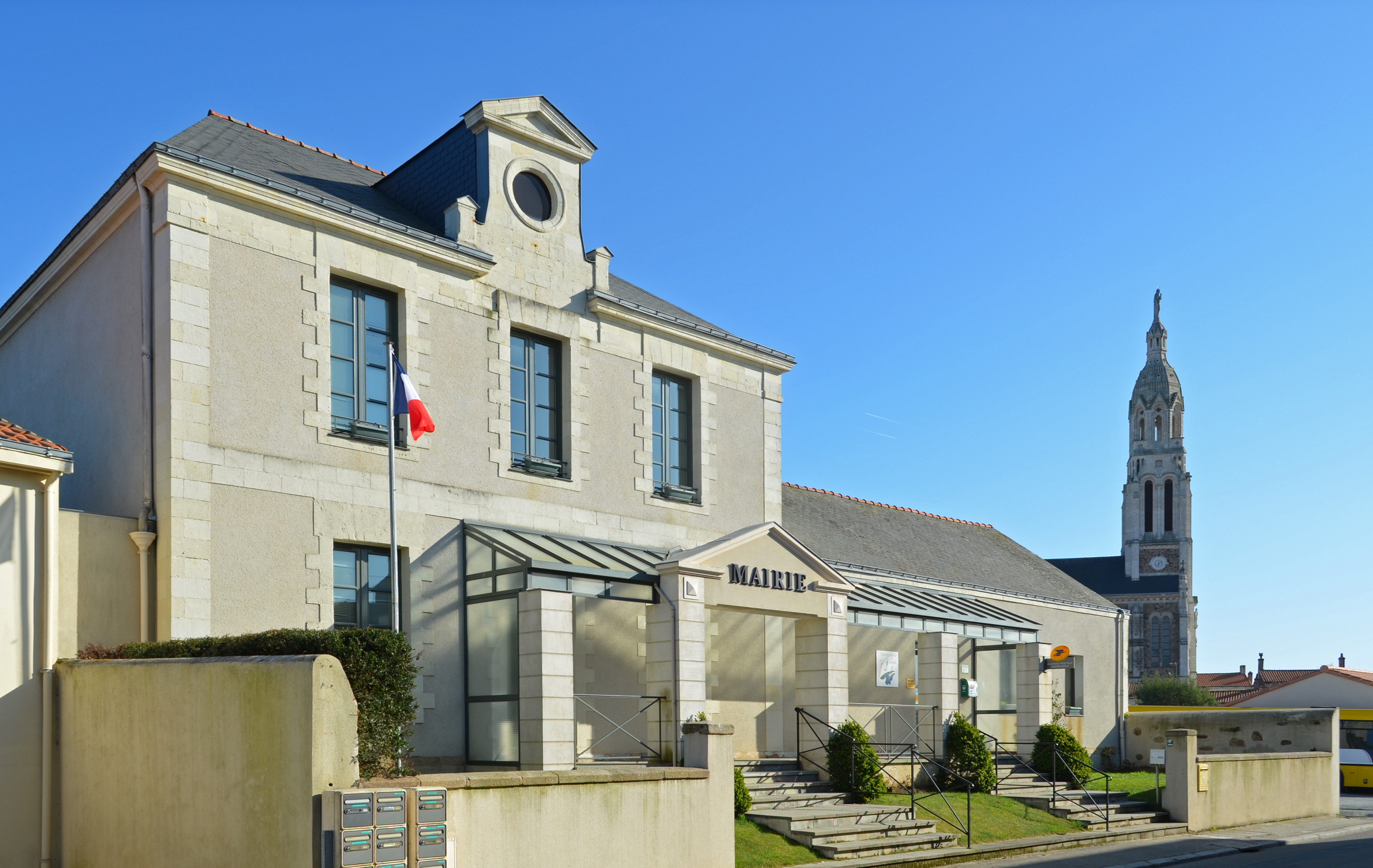 City hall and church - Saint-Lumine-de-Coutais (Loire-Atlantique, France)